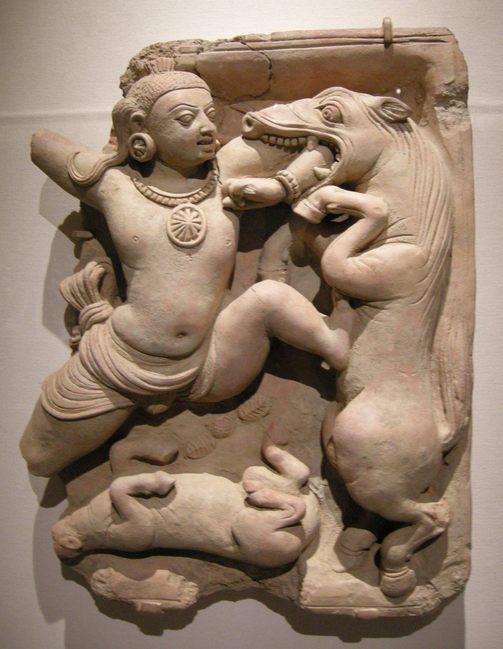 Met, india (uttar pradesh), gupta period, krishna battling the horse demon keshi, 5th century. Terracotta